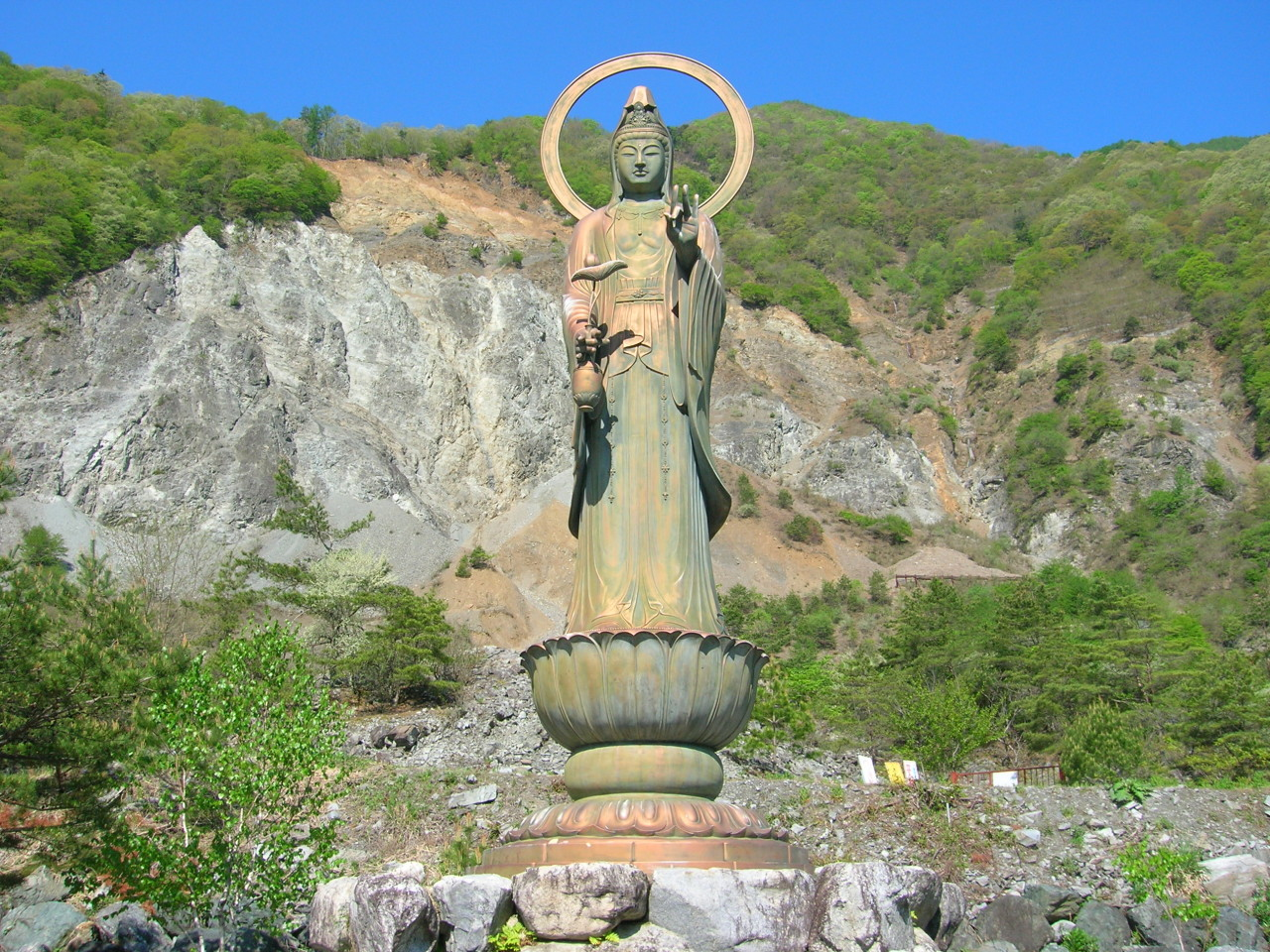 Ōnishi Kanzeon bosatsu. (Ōnishi Park, Statues of Kanzeon bosats.) Loc: Ōshika, Nagano Prefecture, Japan 大西観世音菩薩。 撮影場所 長野県下伊那郡大鹿村・大西公園